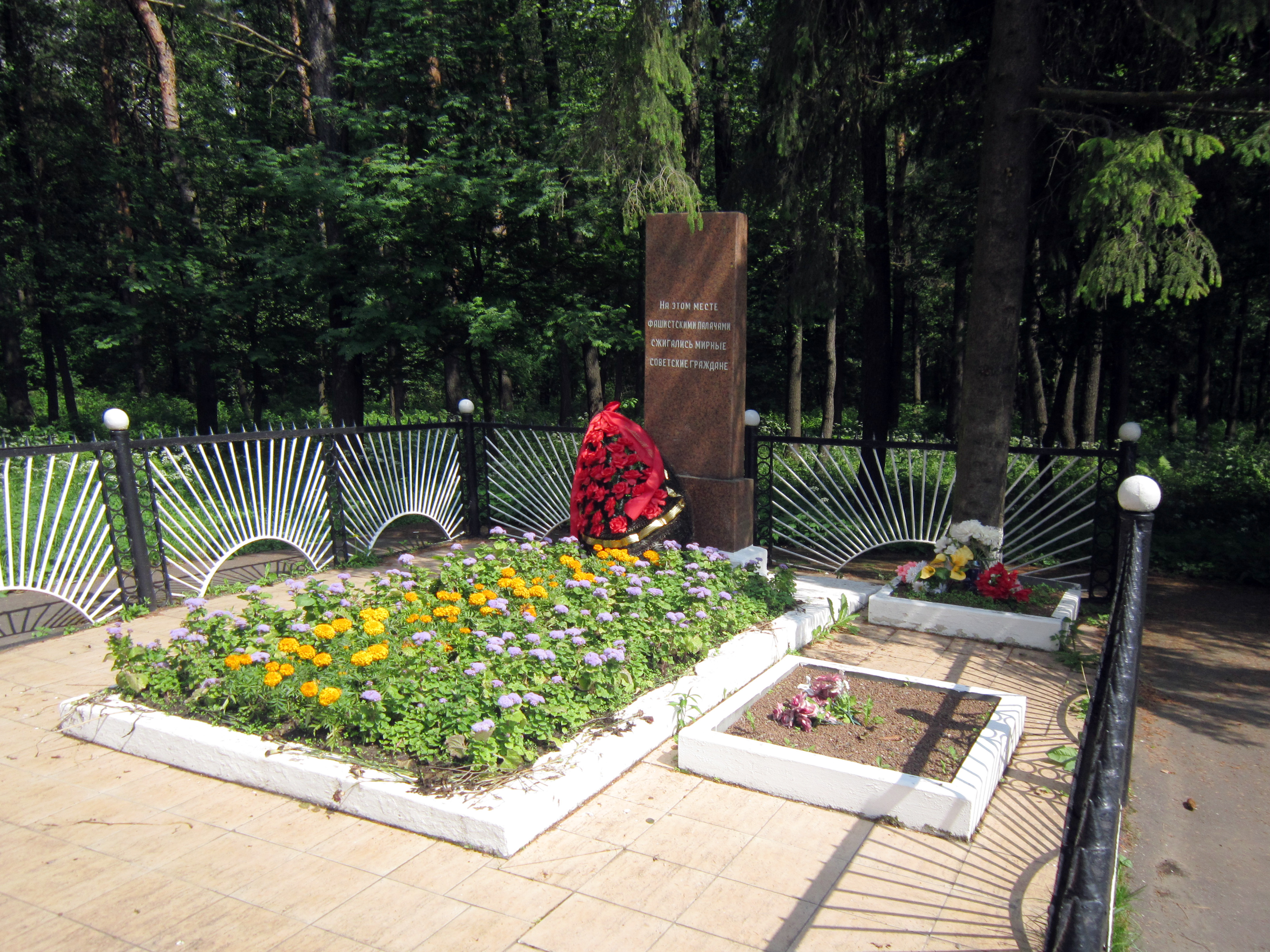 Memorial sign on a place of Maly Trastsianets extermination camp (Minsk, Belarus). Inscription (literal translation): «On this place fascist torturers burned peaceful Soviet people»